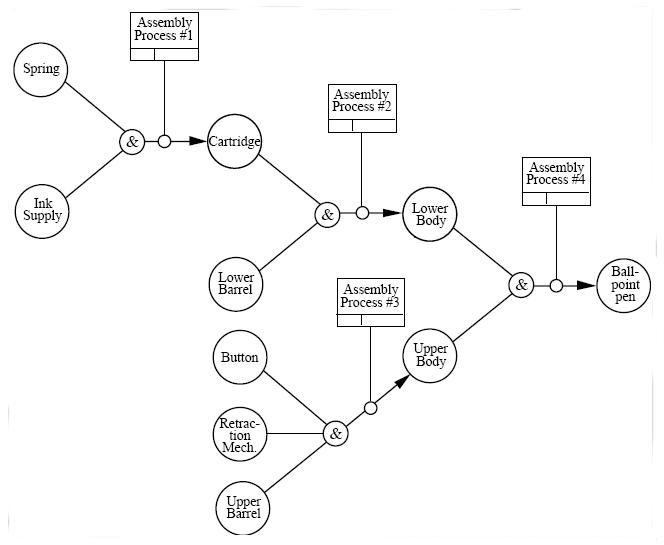 Figure 4-54. Complex Strict State Composition Schematic for the Kind Ballpoint Pen